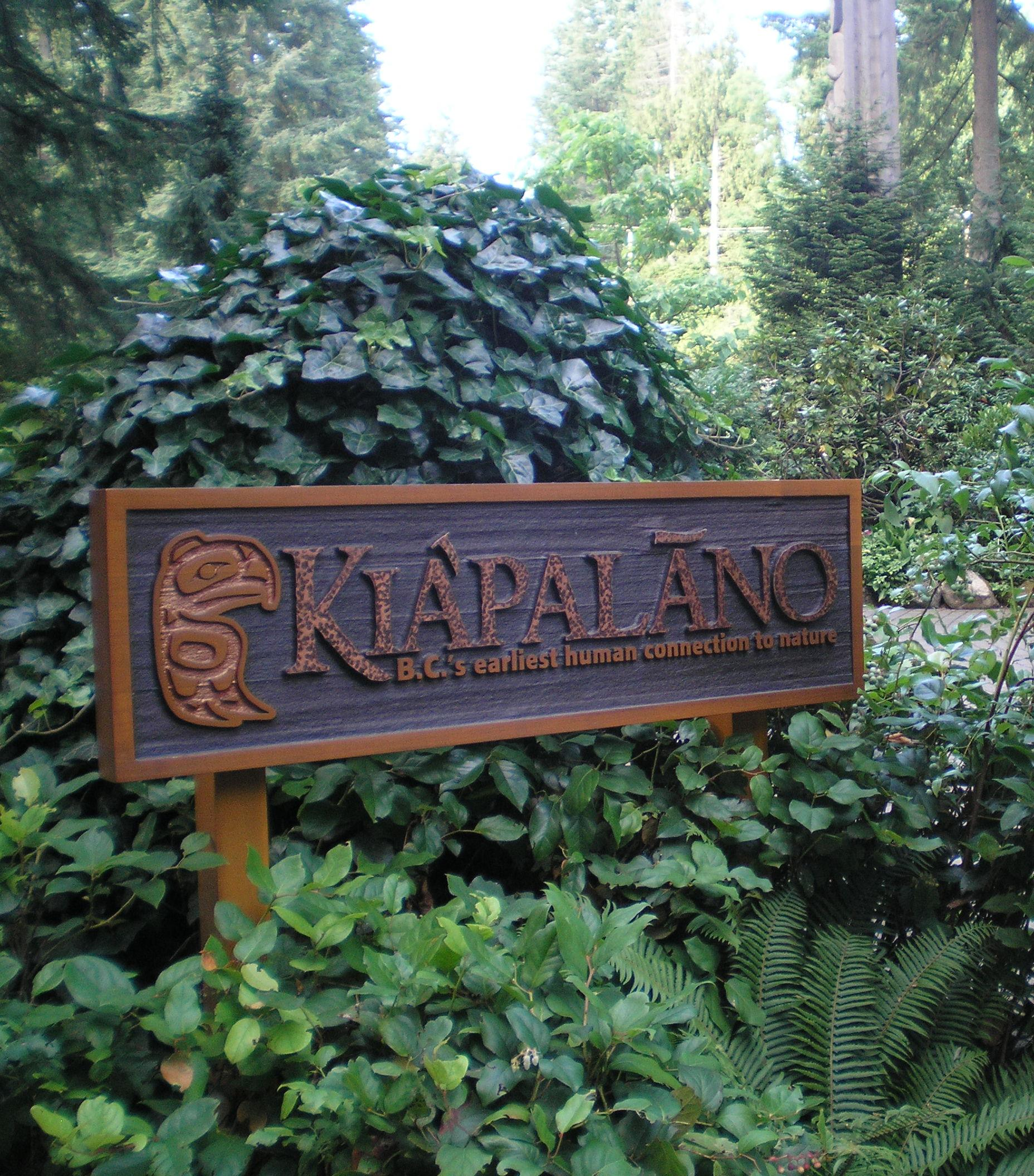 Capilano Suspension bridge near Vancouver, Canada.